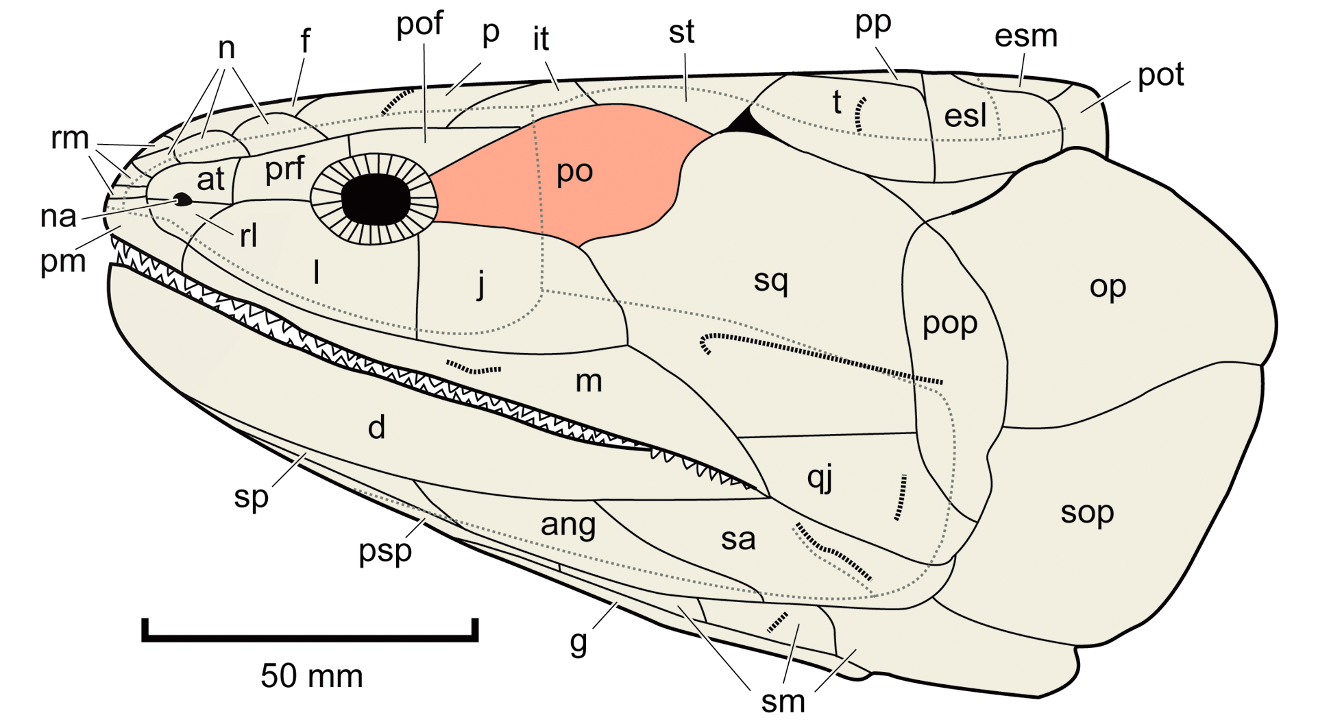 Skull drawing of Eusthenopteron foordi WHITEAVES, 1881, in lateral view with position of the postorbital highlighted in red. After Carroll (1988).[1]